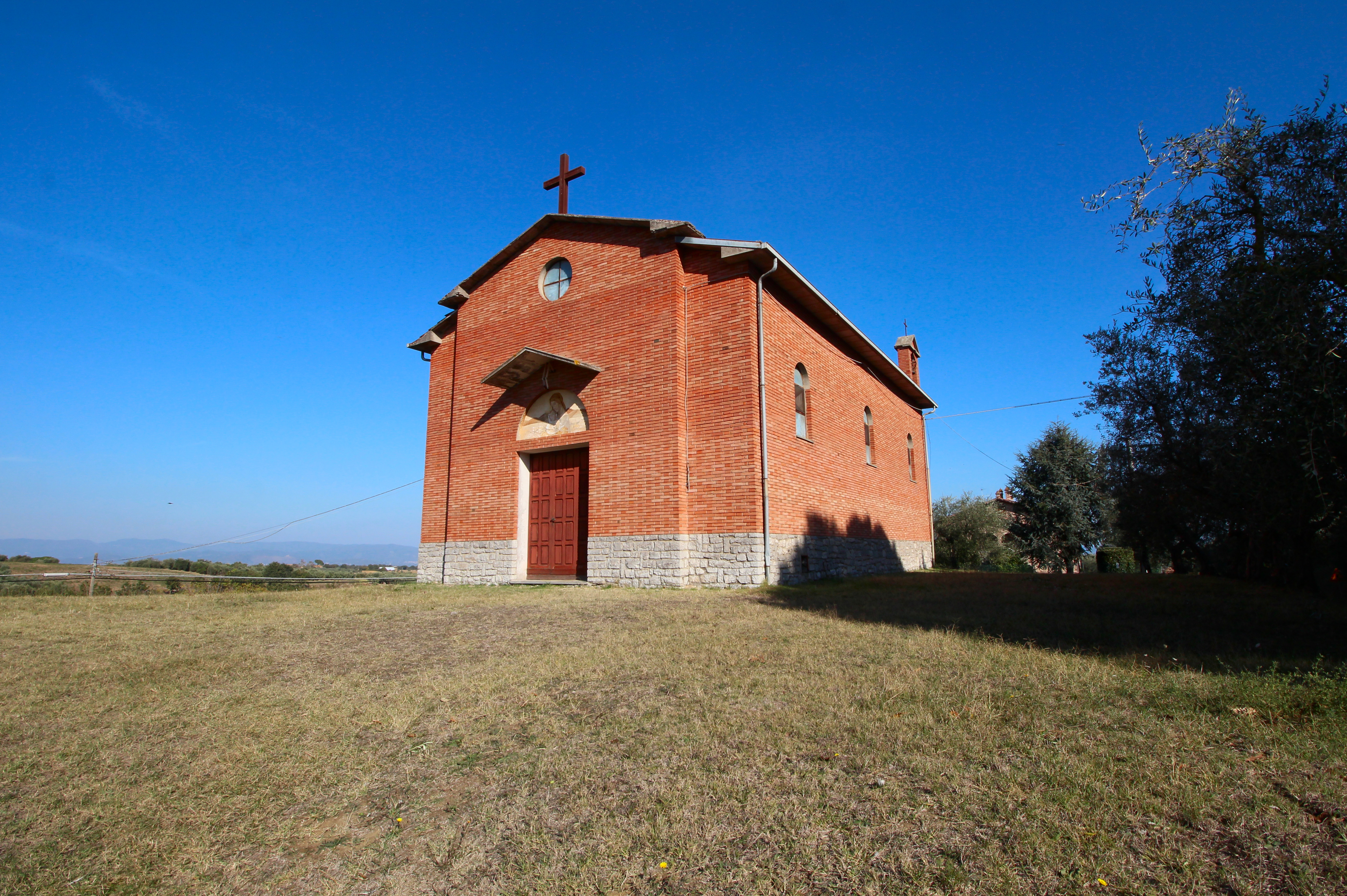 Church Madonna della Neve, Casamaggiore, hamlet of Castiglione del Lago, Province of Perugia, Umbria, Italy